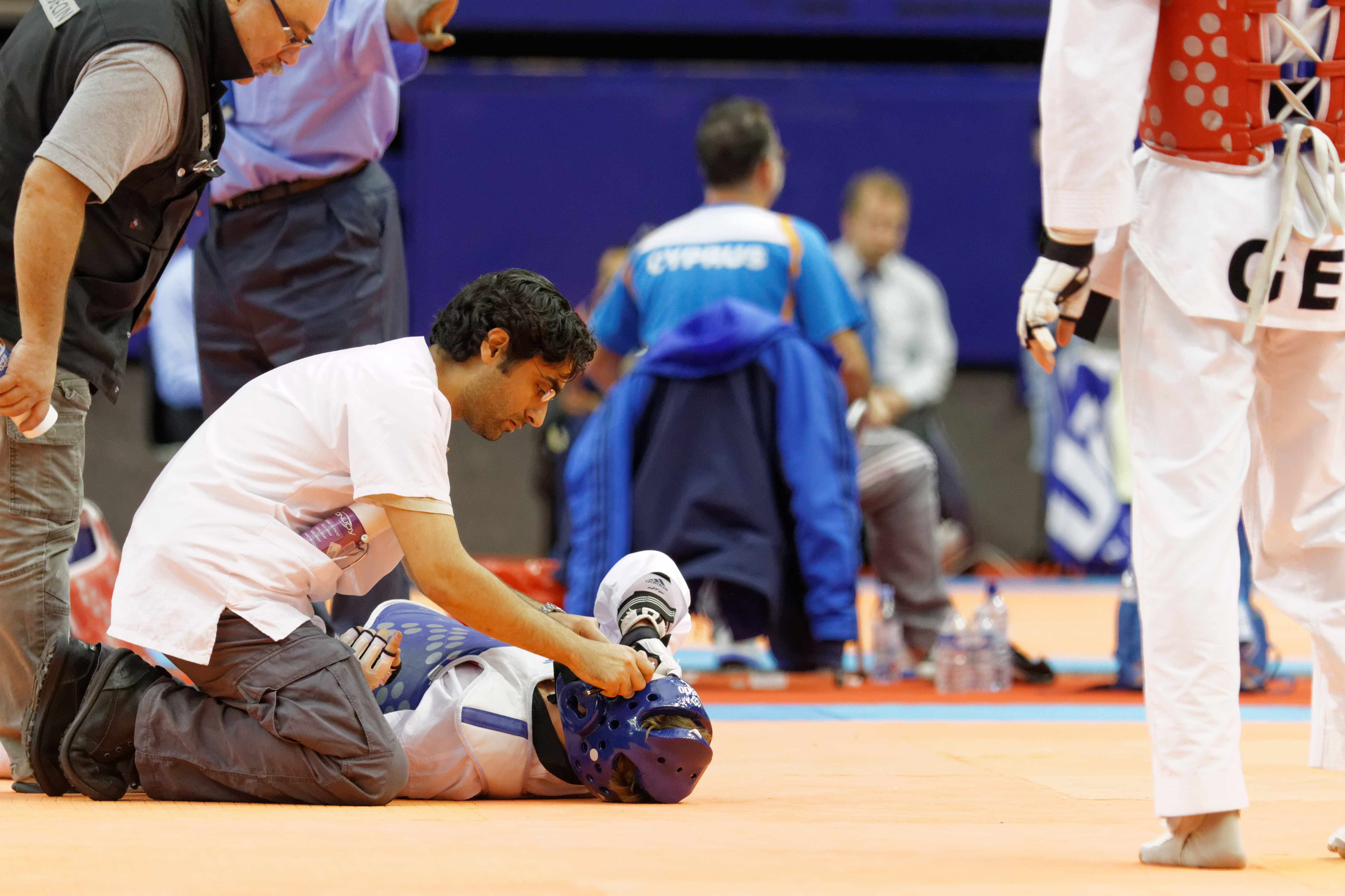 2014 French Open Taekwondo, 22nd-23rd November 2014, Paris, France